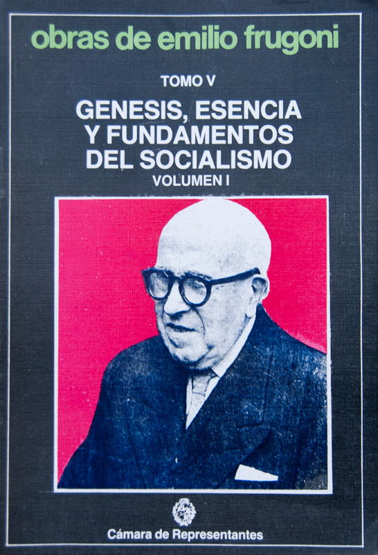 Book cover the complete collection of works by Dr. Emilio Frugoni. Published by the House of Representatives Legislative Branch of Uruguay.